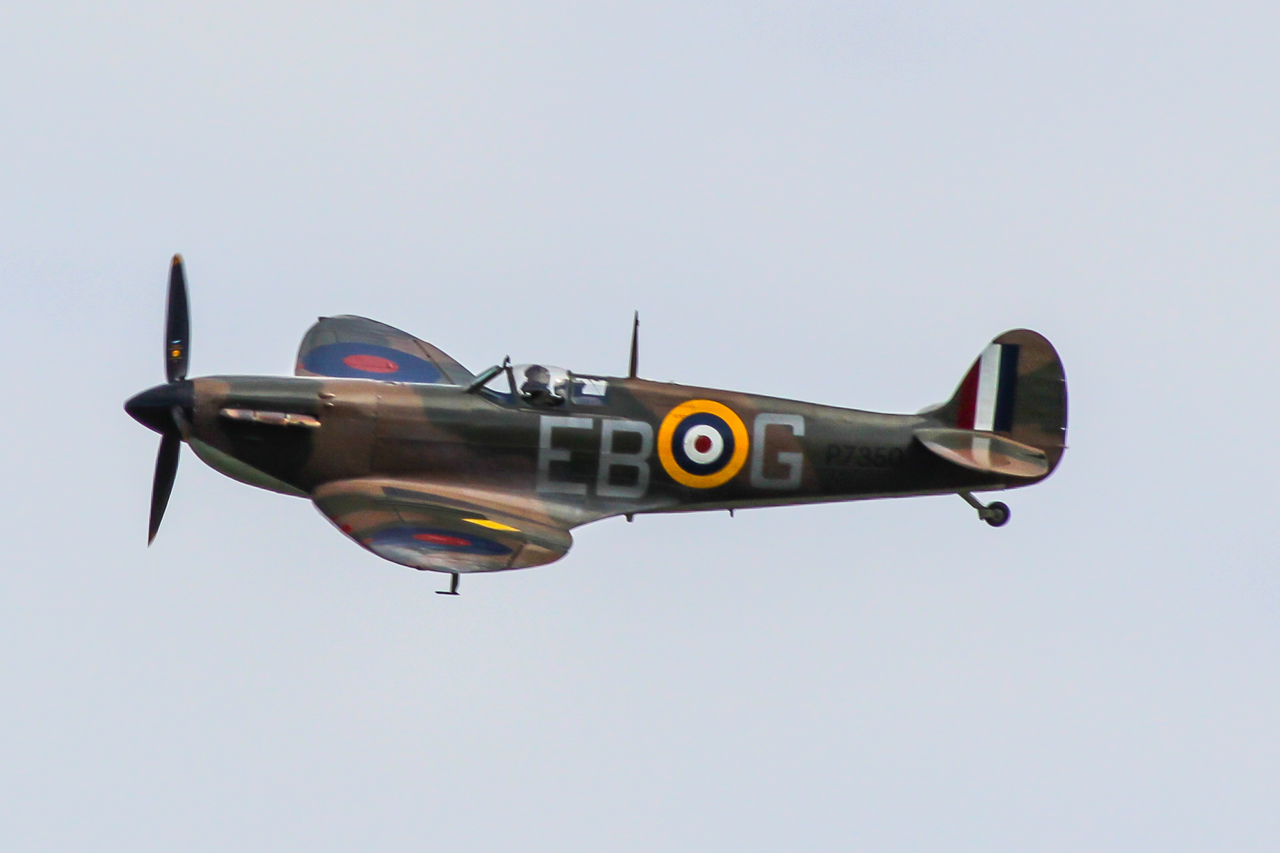 P7350/EB-G Spitfire Mk IIa Battle of Britain Memorial Flight